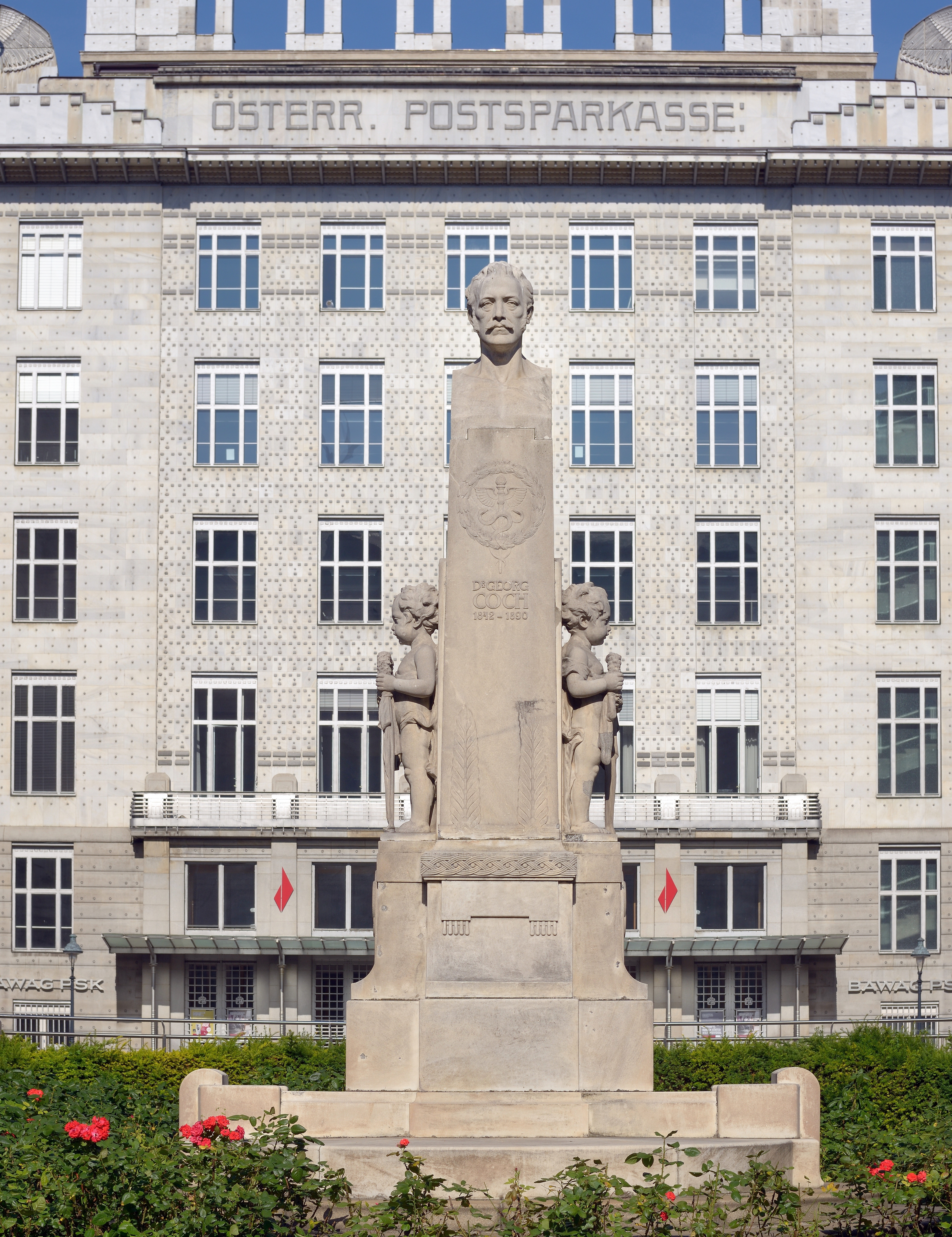 Georg Coch monument (founder of Postsparkasse), in the background headquarters of BAWAG-PSK (former Postsparkasse)